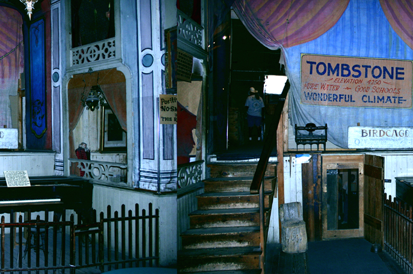 stage area and curtain at the Bird Cage Theatre in Tombstone, Arizona